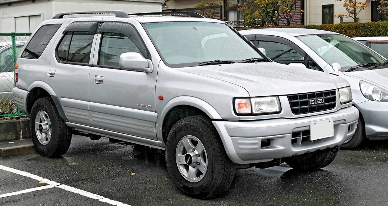 Second generation Isuzu Dd Wizard, 3.0 Drect injection D Turbo Type X ( UES73FW / June 1998 ~ April 2000 ).